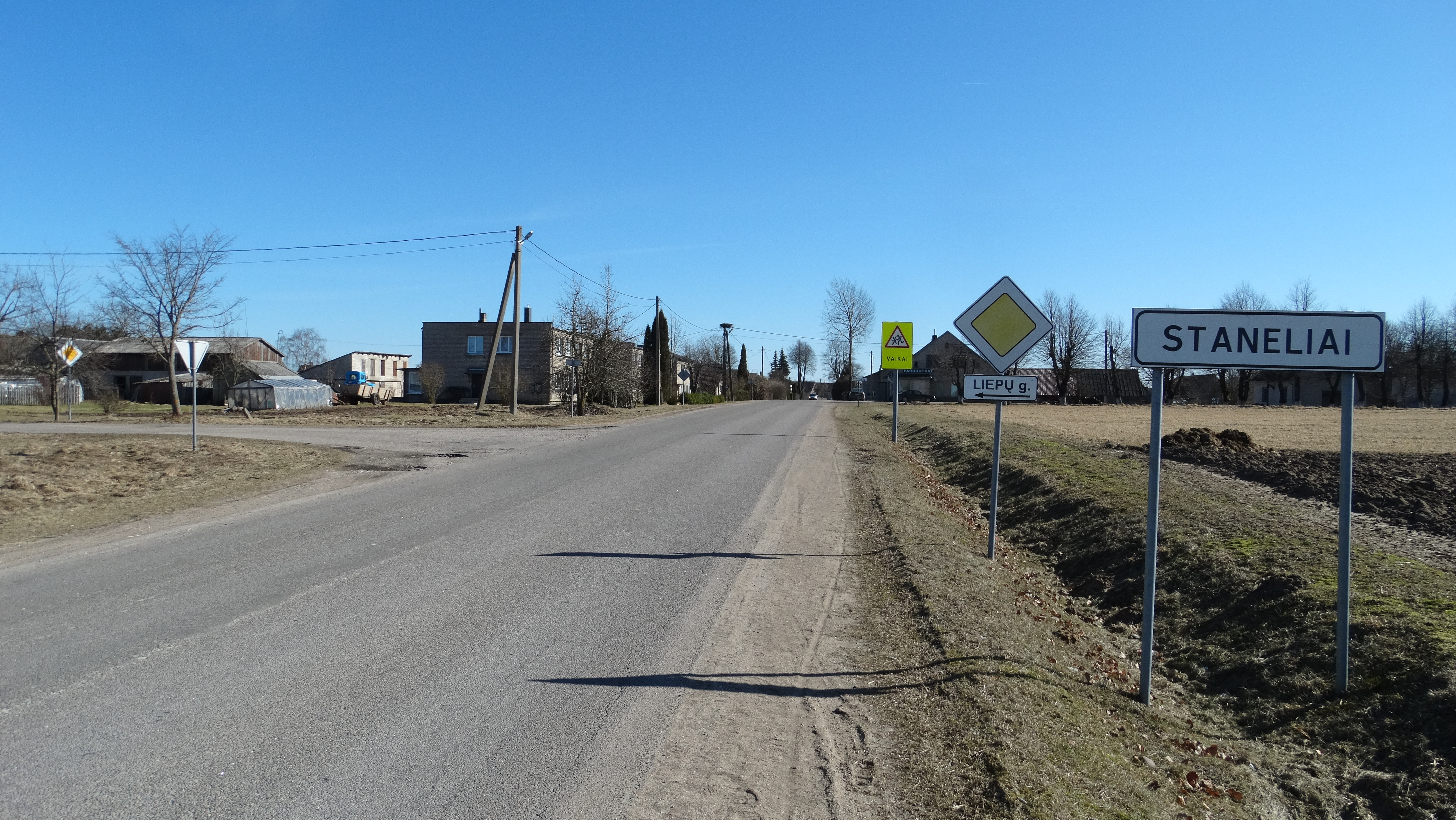 Staneliai, Plungė District, Lithuania